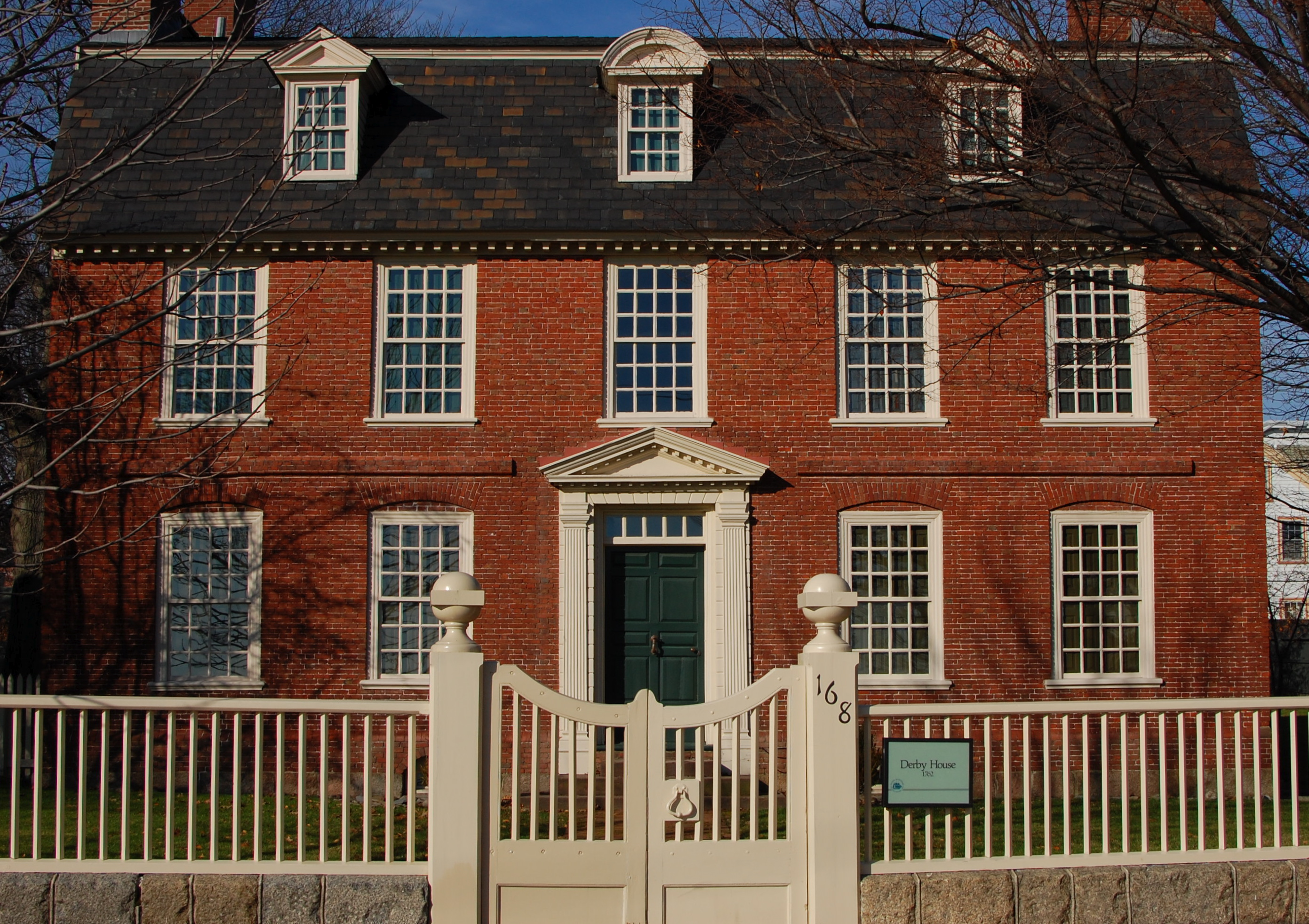 The Derby House at 168 Derby Street, Salem, Massachusetts. Built by Richard Derby in the Georgian style c. 1762, the oldest brick house in Salem. A Historic contributing property to the Salem Maritime National Historic Site. (Salemweb: guide).